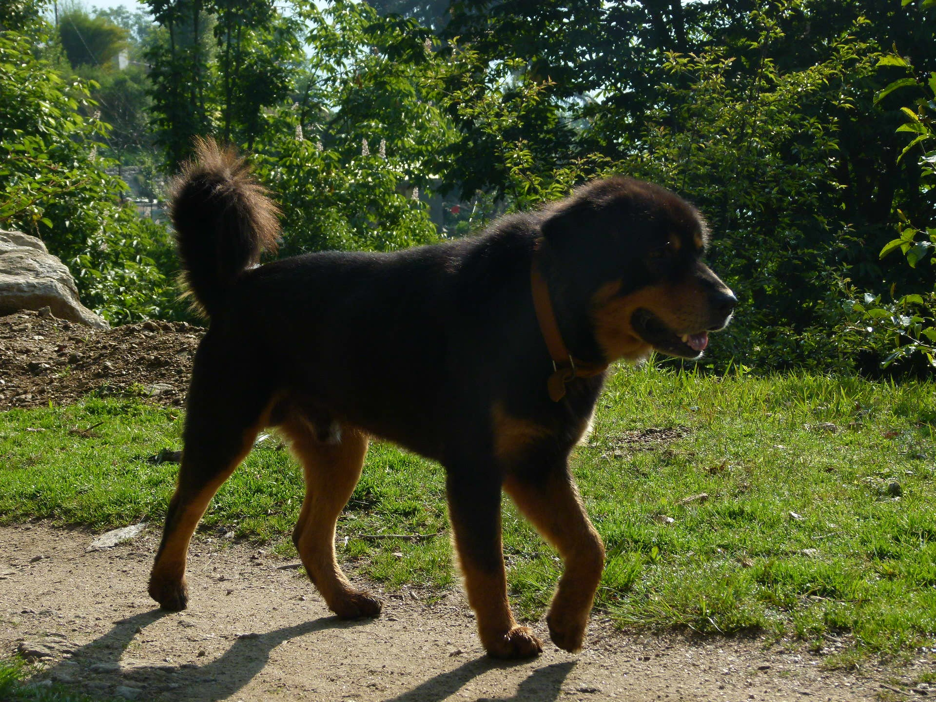 Himalayan Sheep Dog, central Himalayas